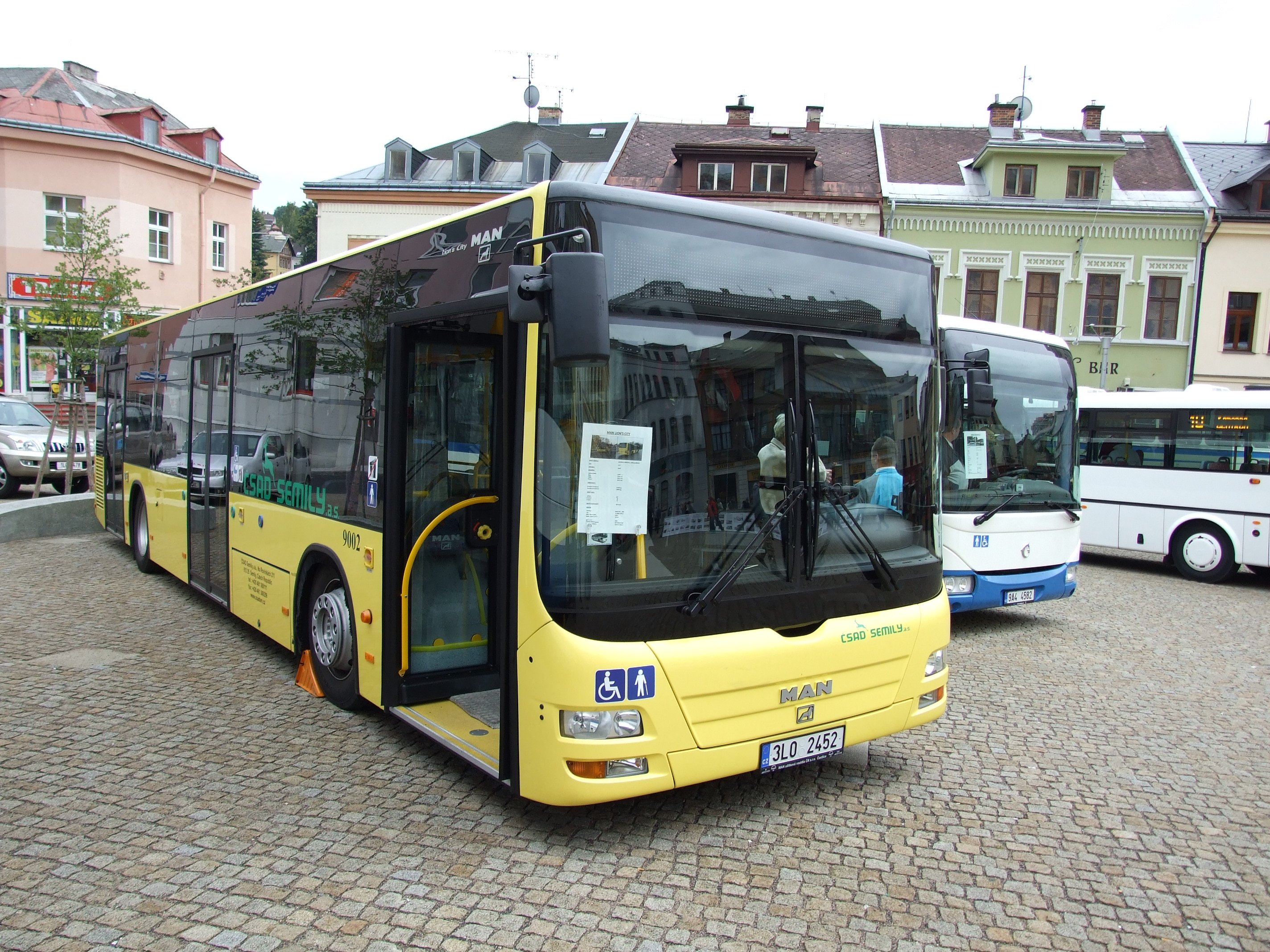 MAN bus in Jablonec nad Nisou, Liberec region, CZhelp